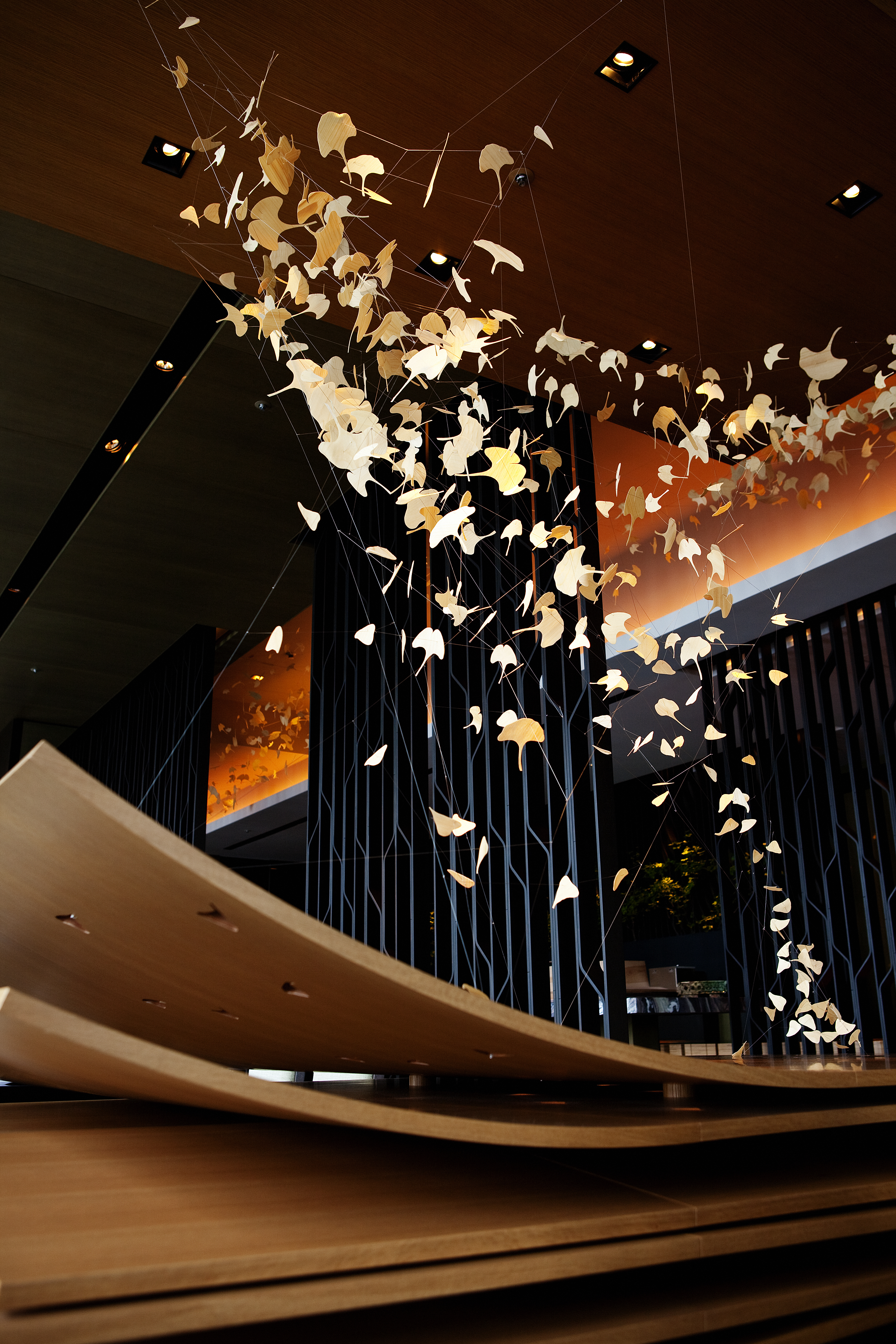 Nadaman